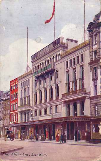 The Alhambra, London (Leicester Square), postcards from the "E. F. A. London Theatre Series"; No. 1004